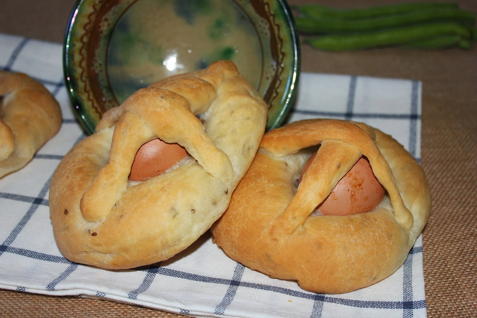 food